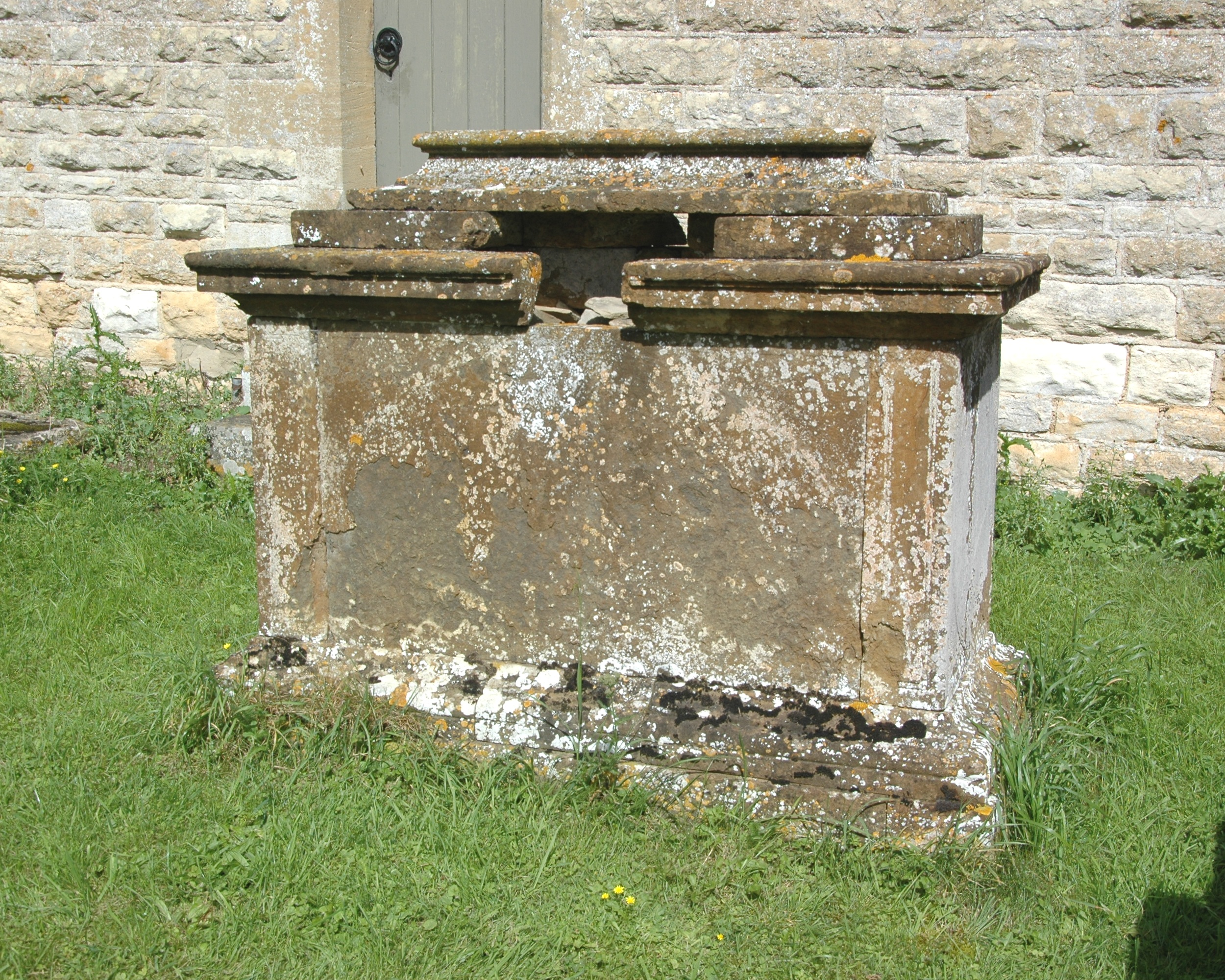 Church of England chapel of St Mary, Shifford, Oxfordshire: late 18th- or early 19th-century chest tomb